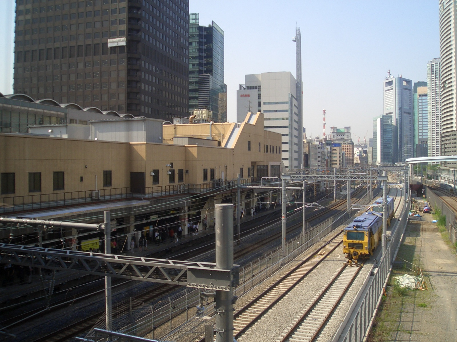 Hamamatsucho Station Building (Taken from South exit)